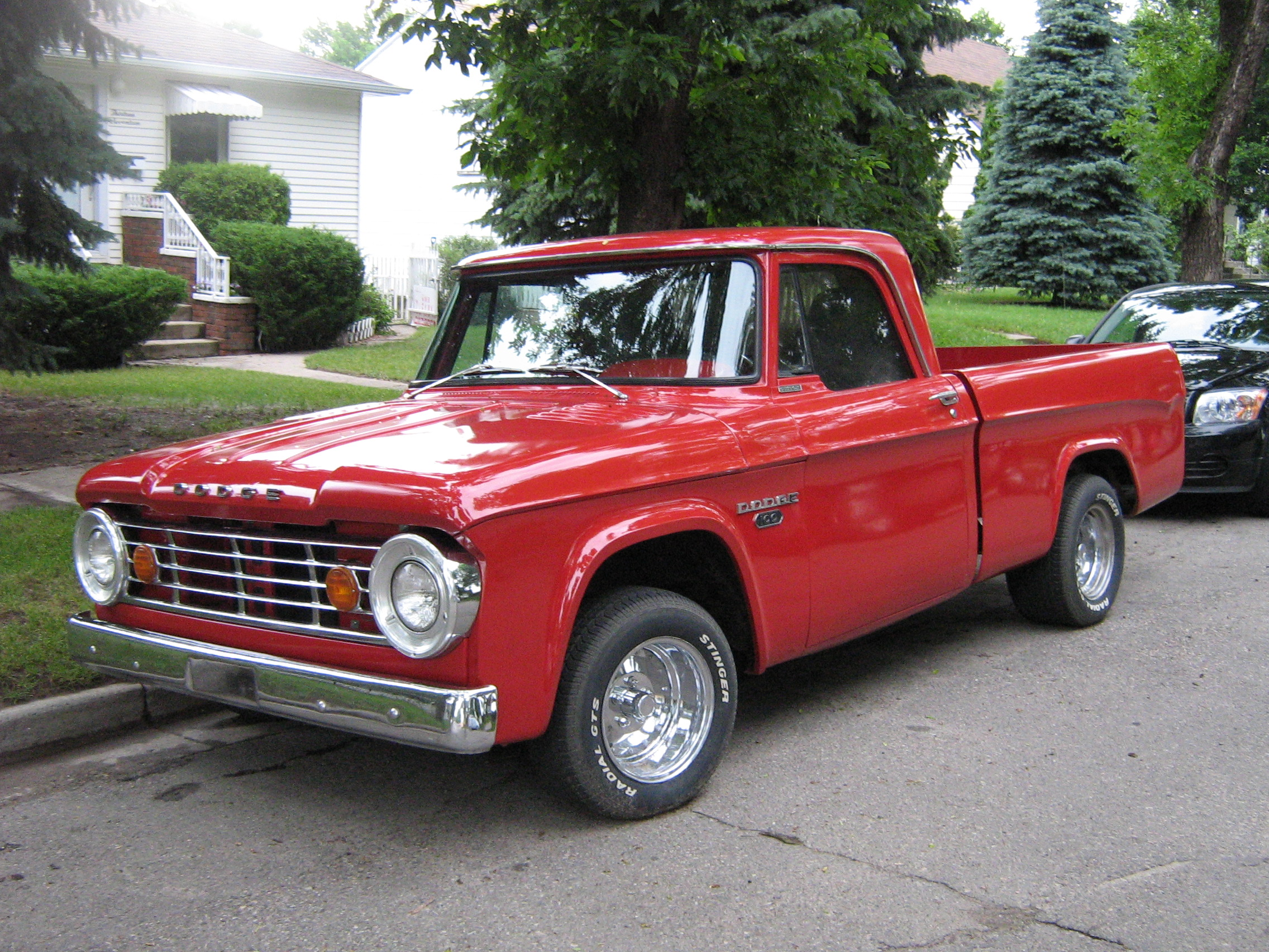 Dodge 500 truck